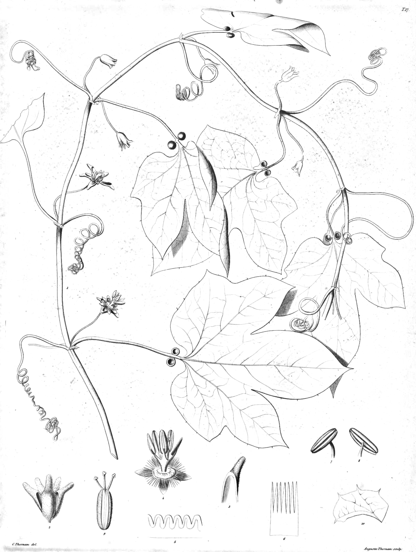 Plate from book of Passiflora adenopoda DC.